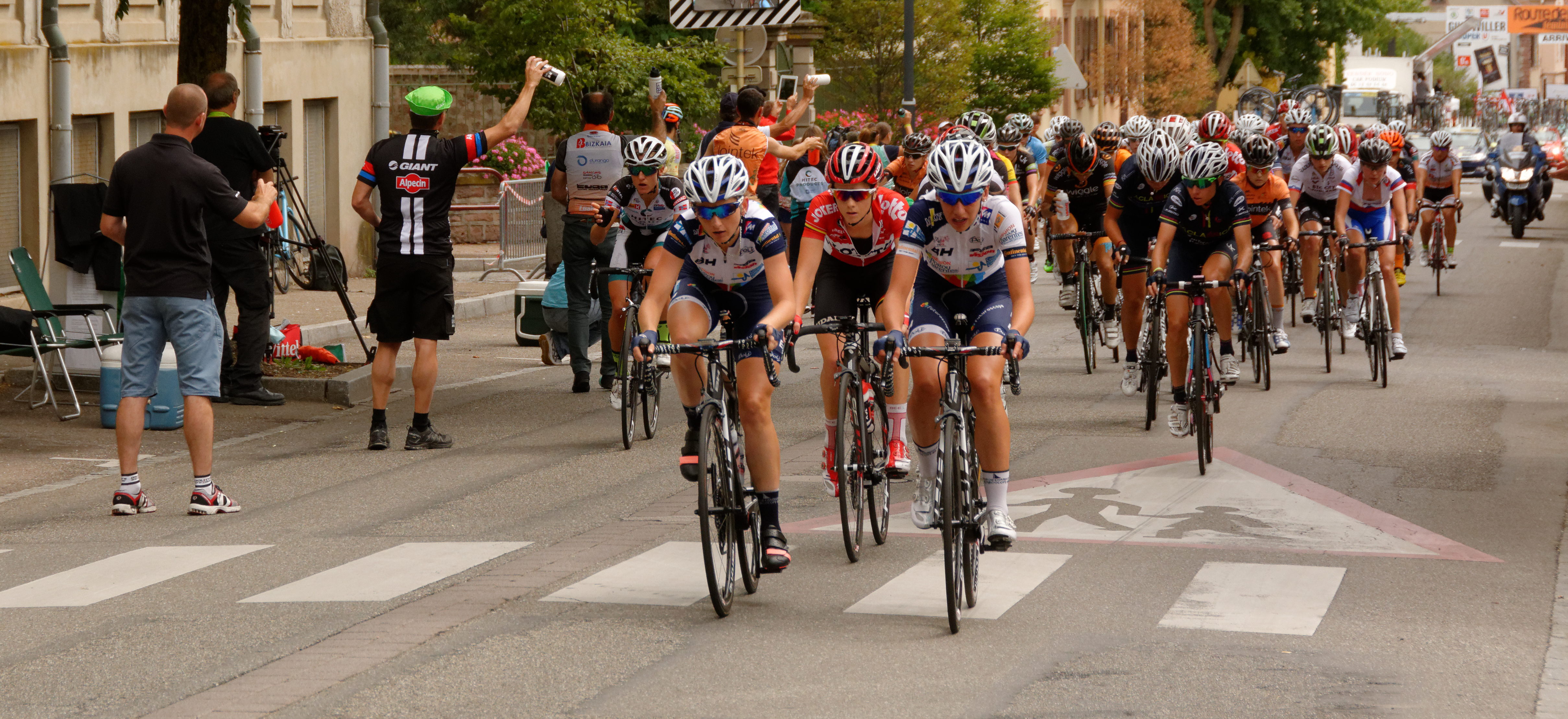 Personality rights warningAlthough this work is freely licensed or in the public domain, the person(s) shown may have rights that legally restrict certain re-uses unless those depicted consent to such uses. In these cases, a model release or other evidence of consent could protect you from infringement claims.